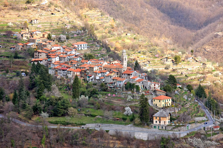 Corte, Molini di Triora, Imperia, Italy